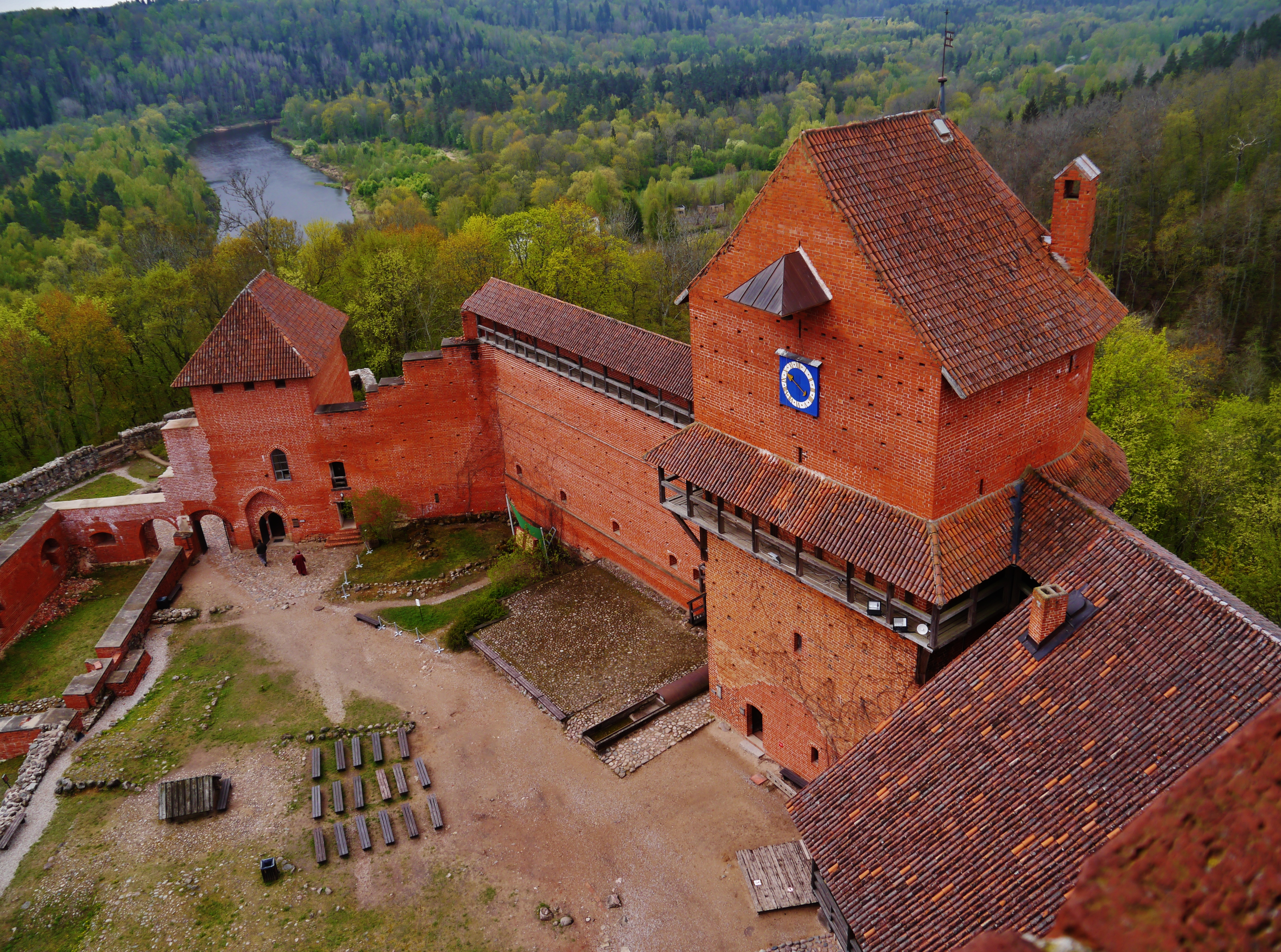 View from the Castle Tower to the Courtyard, Turaida, Latvia